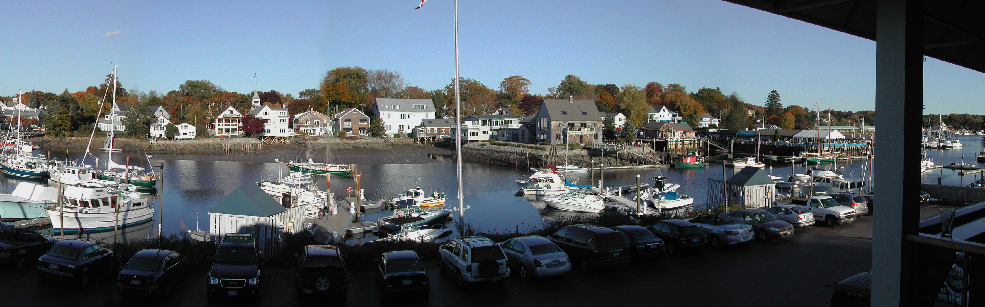 View of the Kennebunk River in Kennebunk/Kennebunkport Maine. Taken from the deck of Federal Jacks